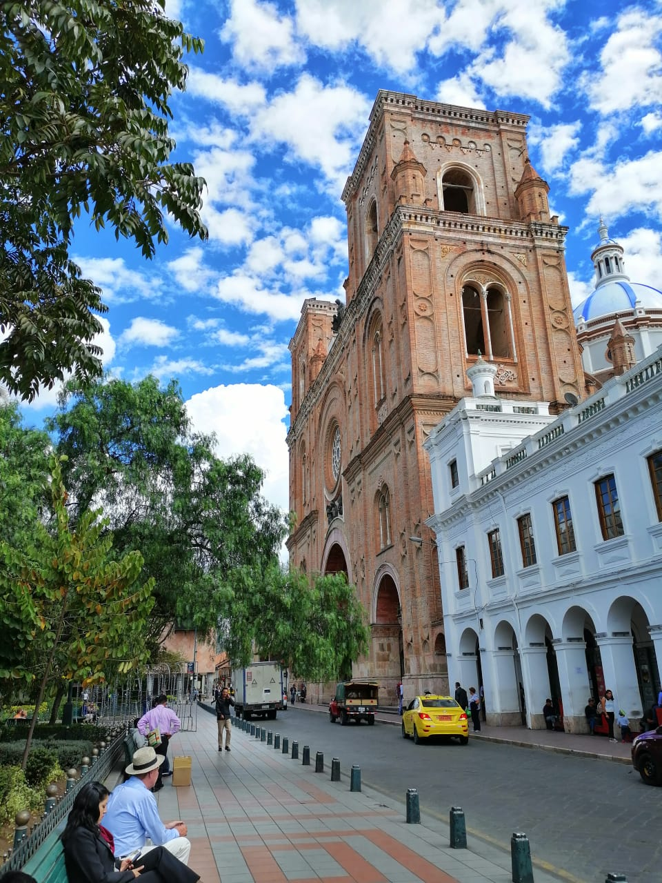 Recent photo was taken by me of the Cathedral